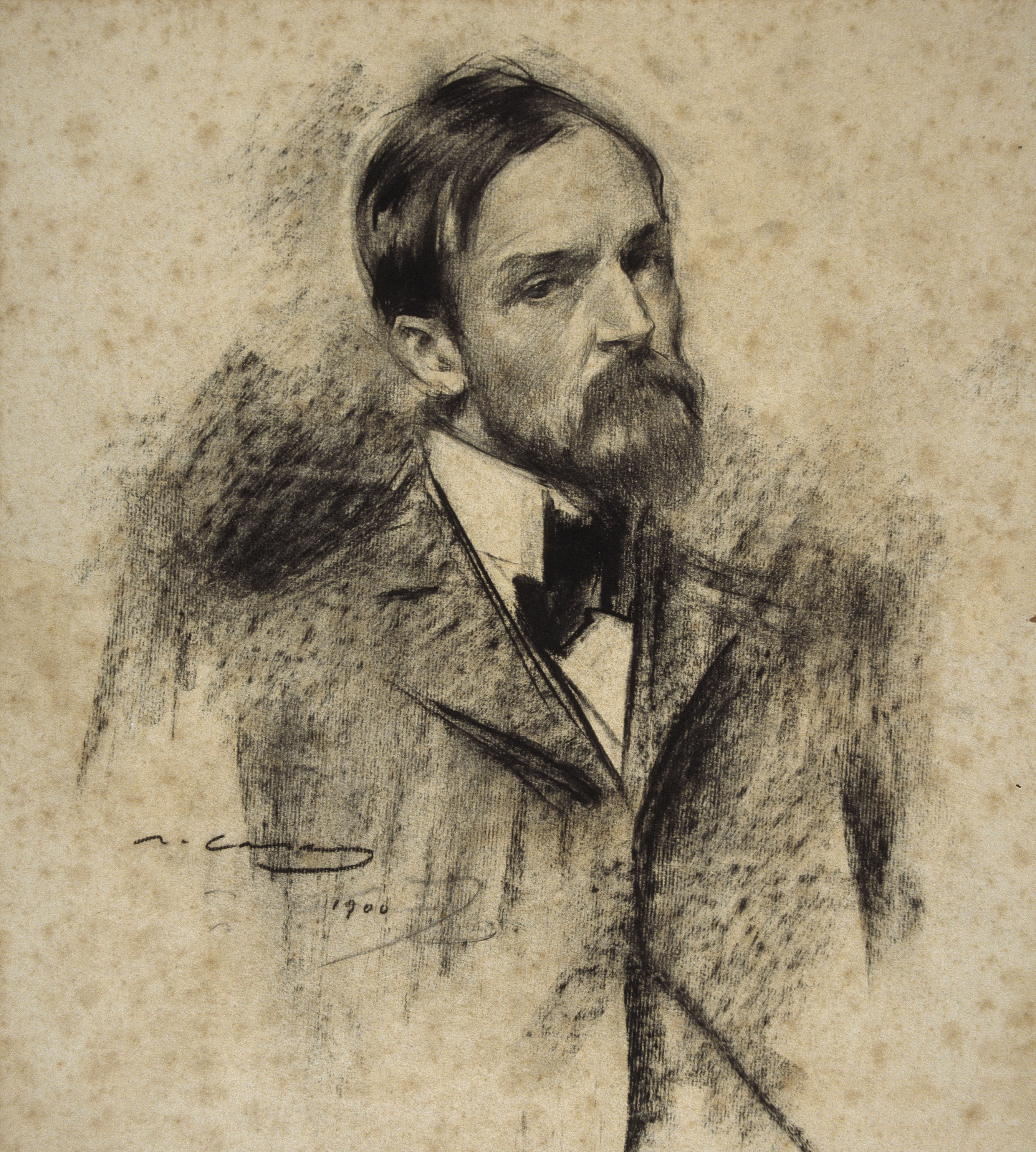 Portrait by Ramon Casas conserved at MNAC in Barcelona. Imagen 003